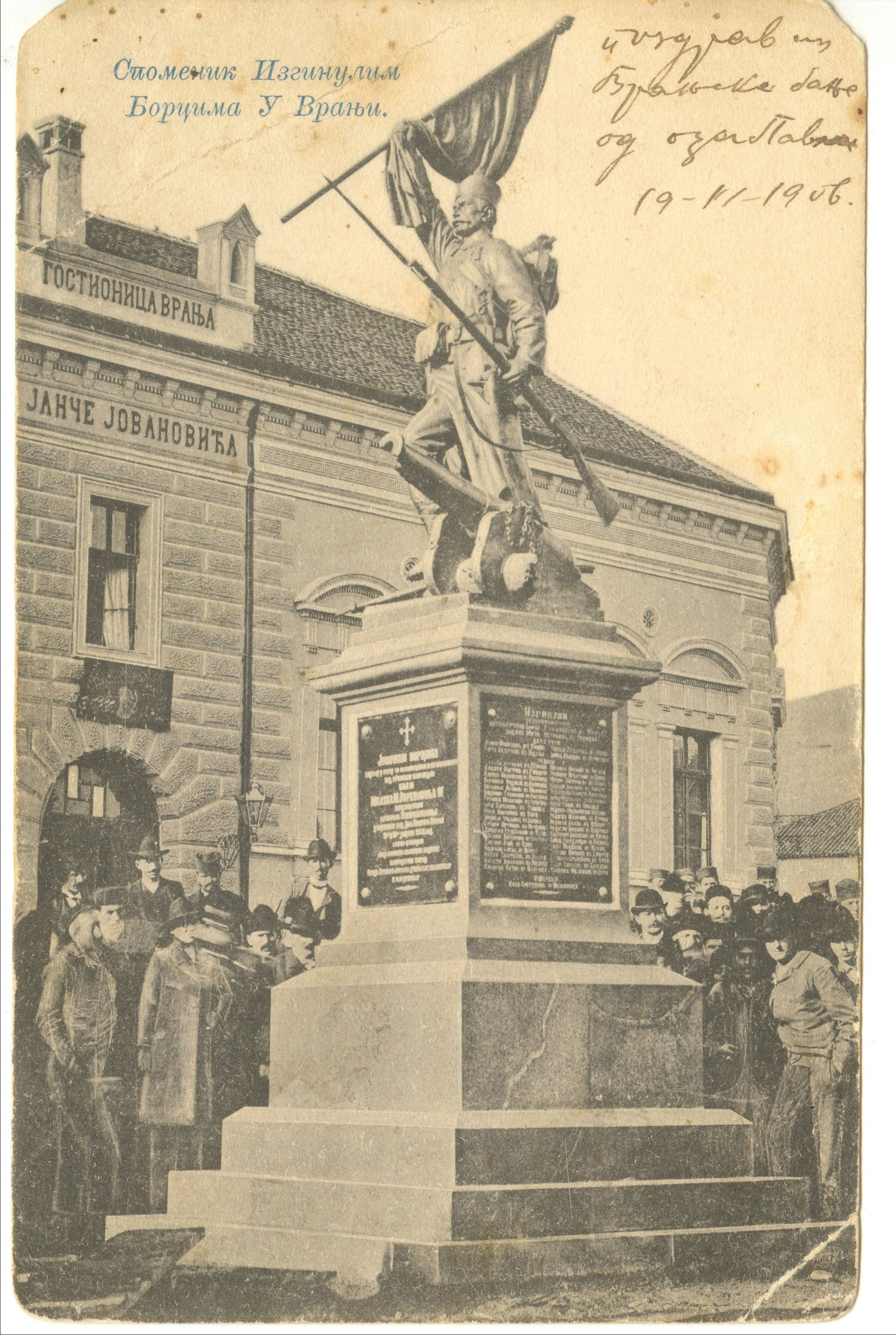 Old postcard of Vranje from beginning of 20th century